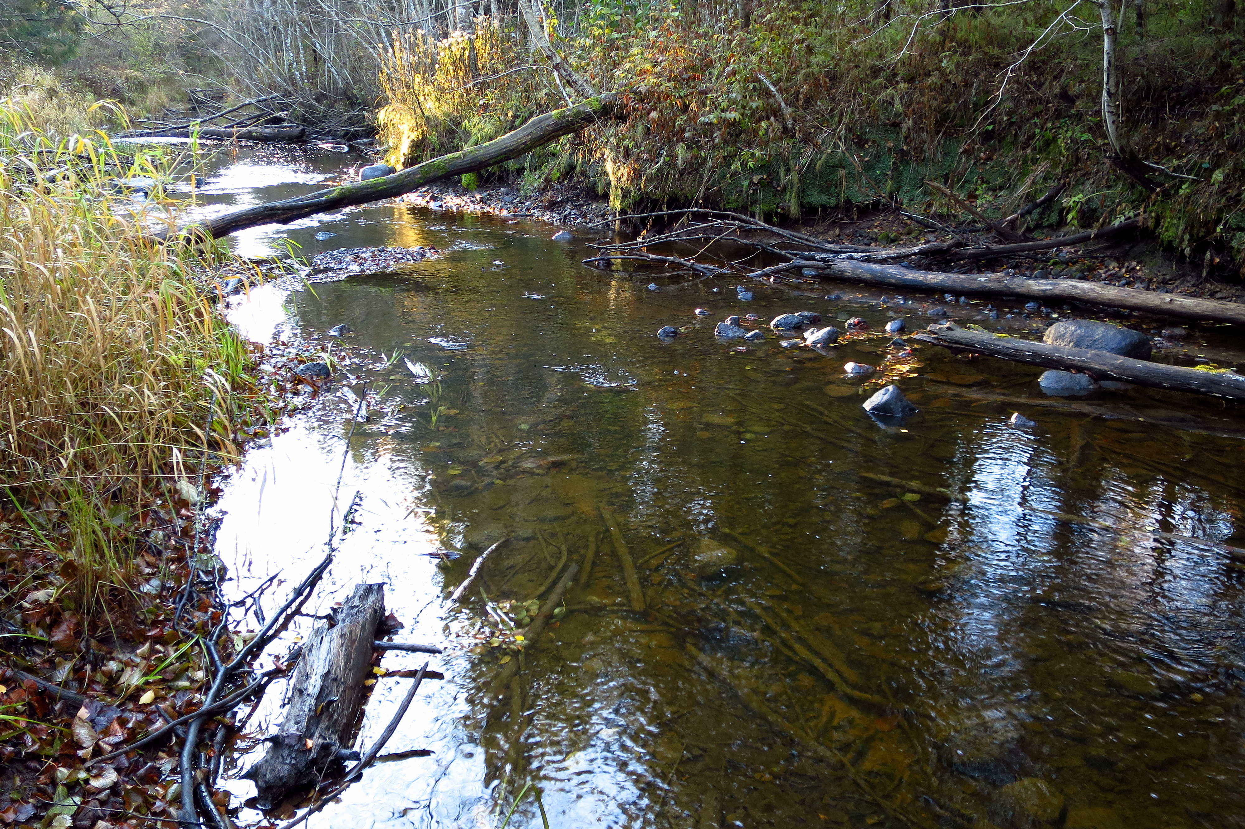 Saarjõgi Tagametsa kohal, Saarjõe MKA